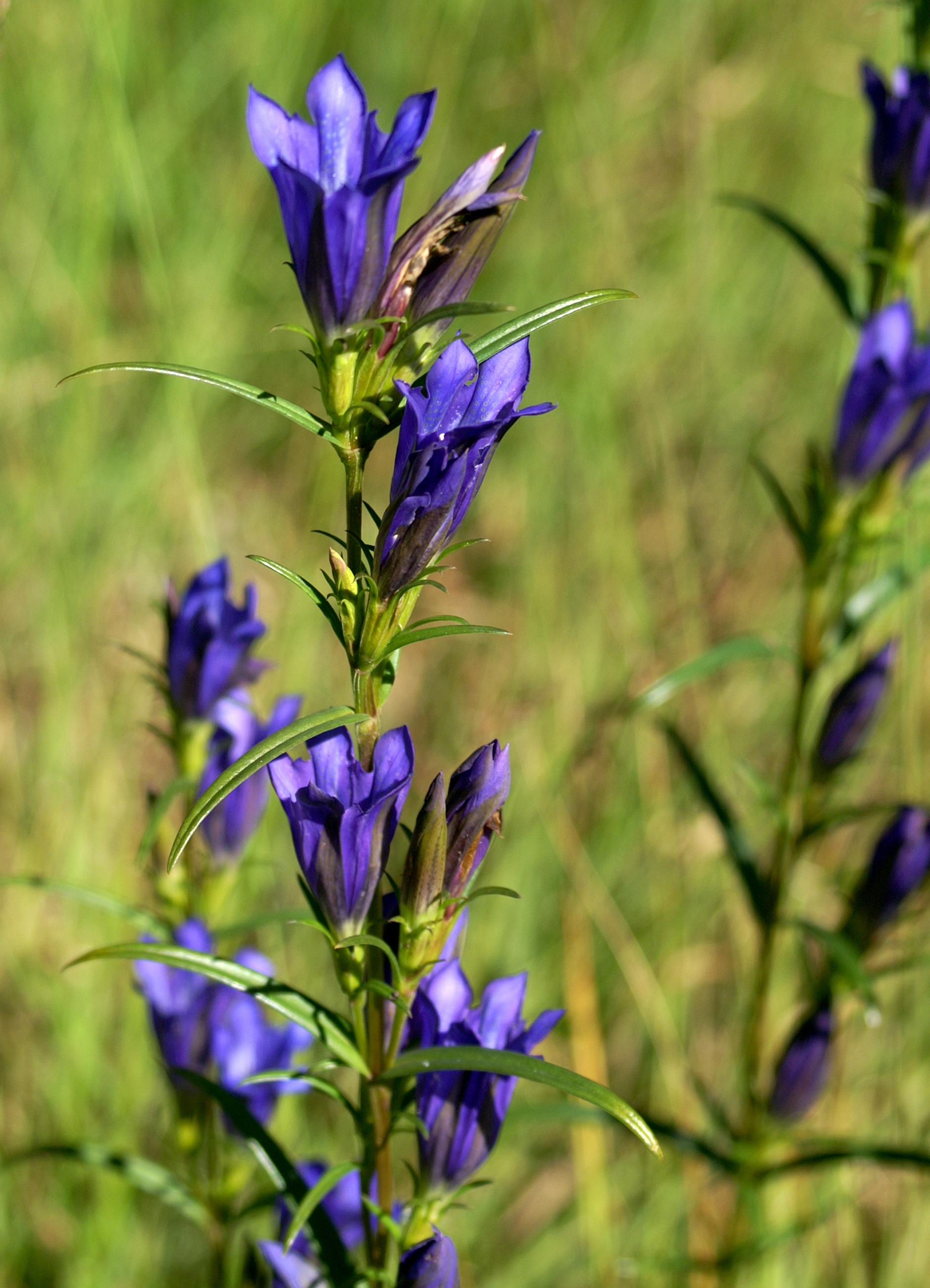 Gentiana pneumonanthe